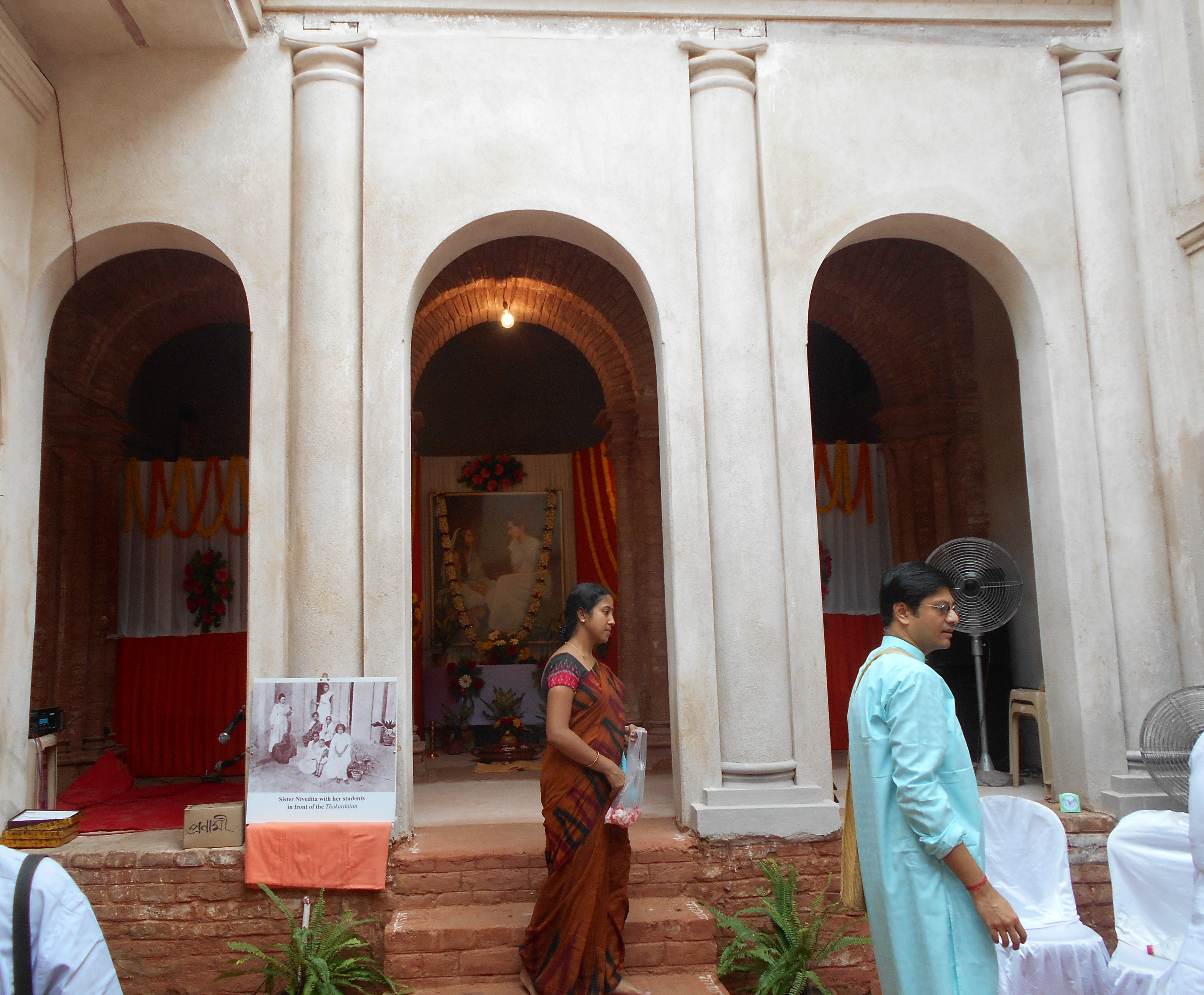 The House of sister nivedita